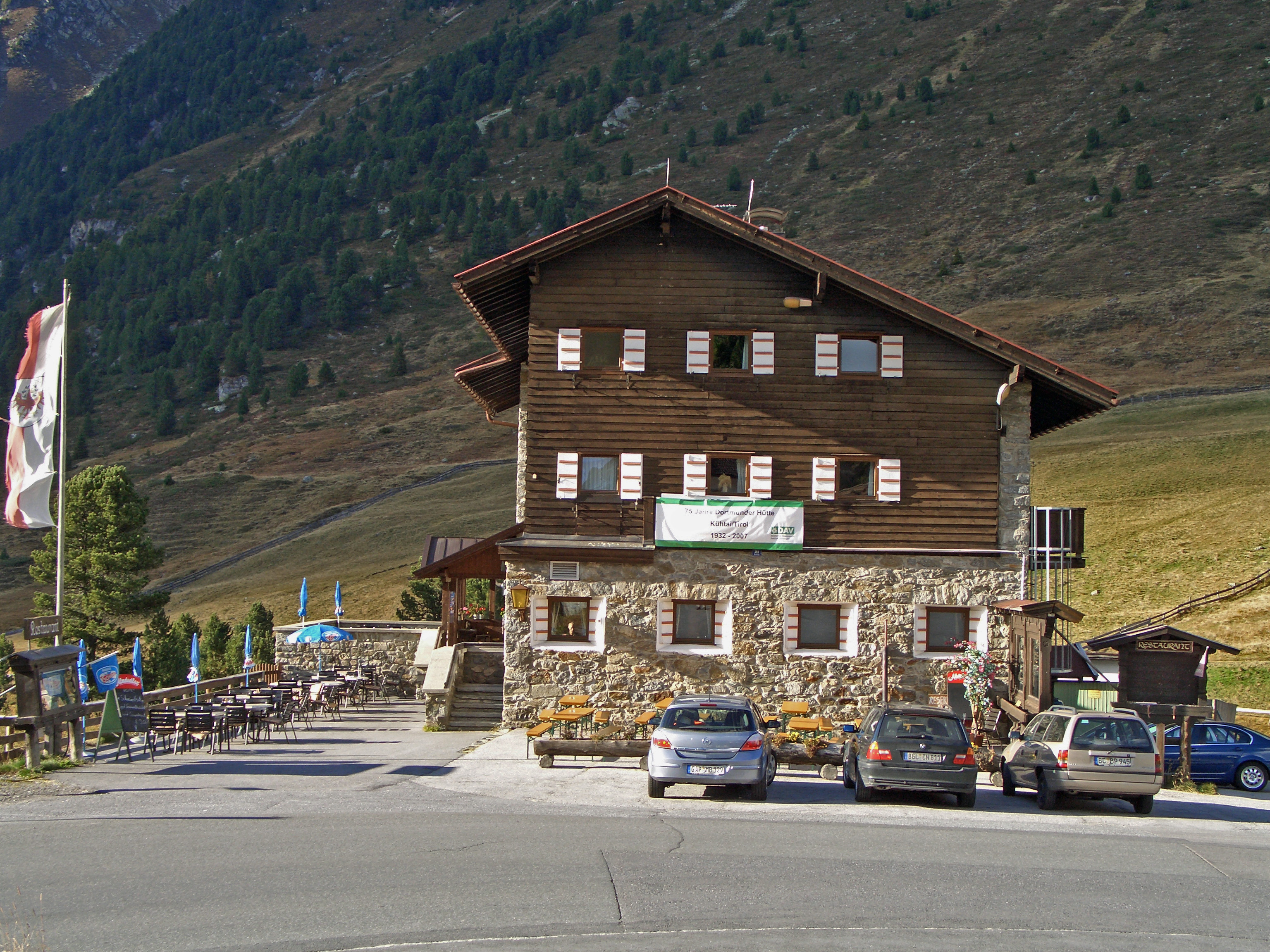 Dortmunder hut from south